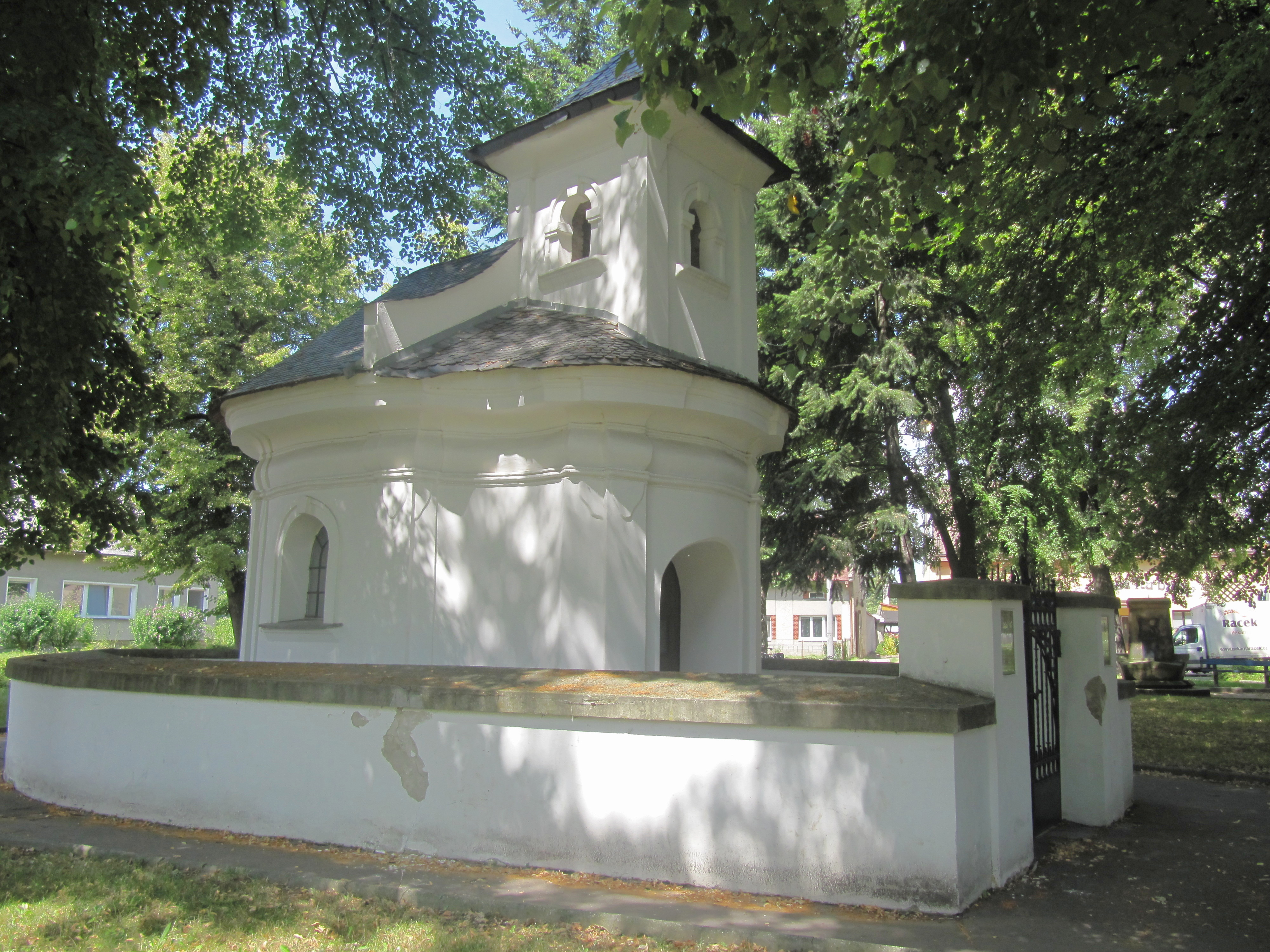 Přerov, Czech Republic, part Lověšice. Chapel of Our Lady on the village green.